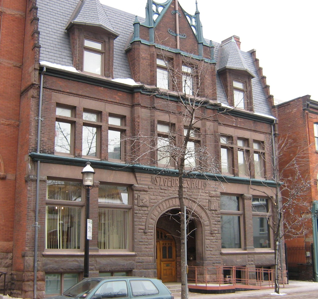 The Arts and Letters Club of Toronto, on Elm Street in Toronto, Ontario, photographed in February 2007.